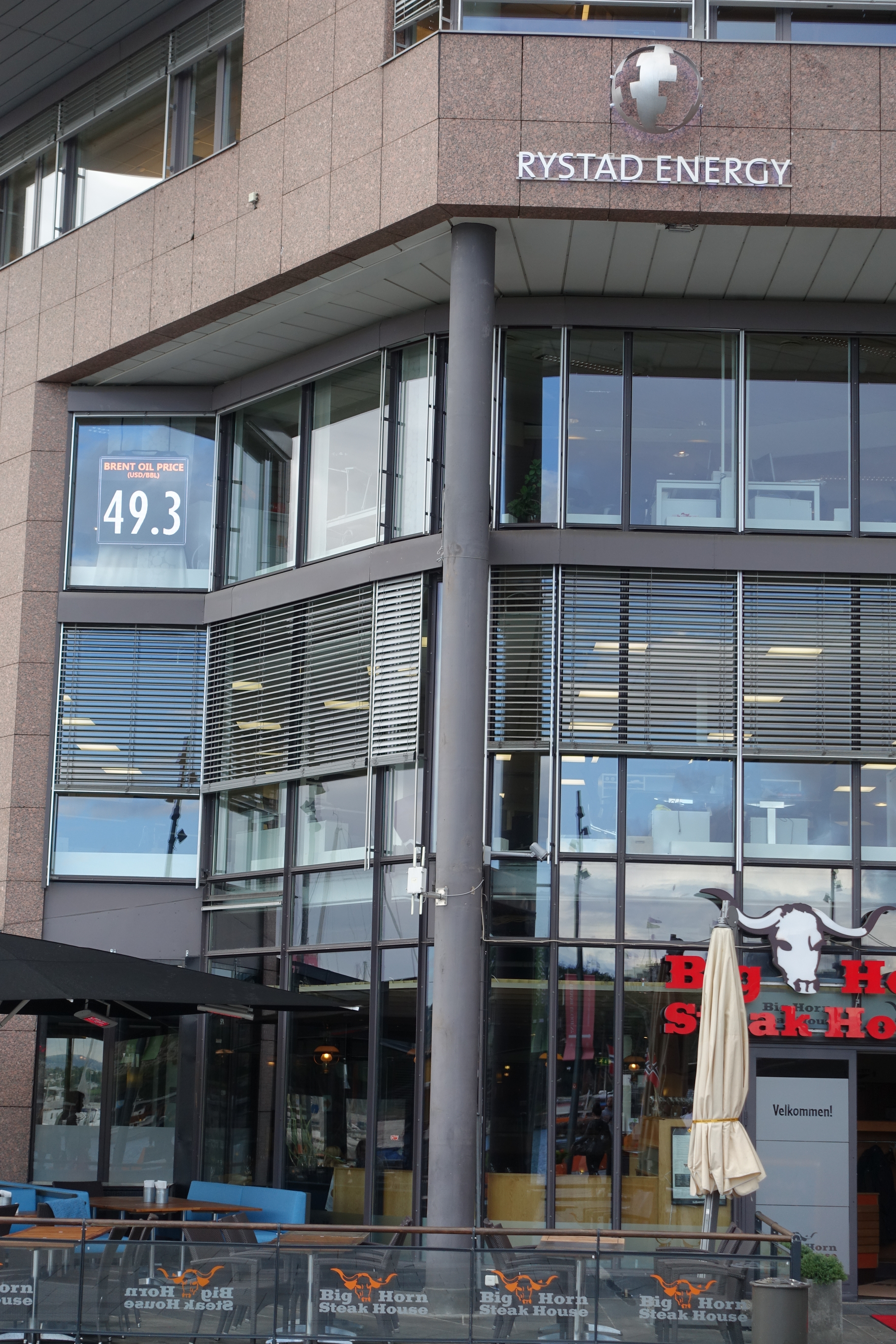 Office of the Norwegian energy consultant Rystad Energy at Aker brygge, Oslo Norway. The company has also put up a sign showing the Brent oil price in realtime